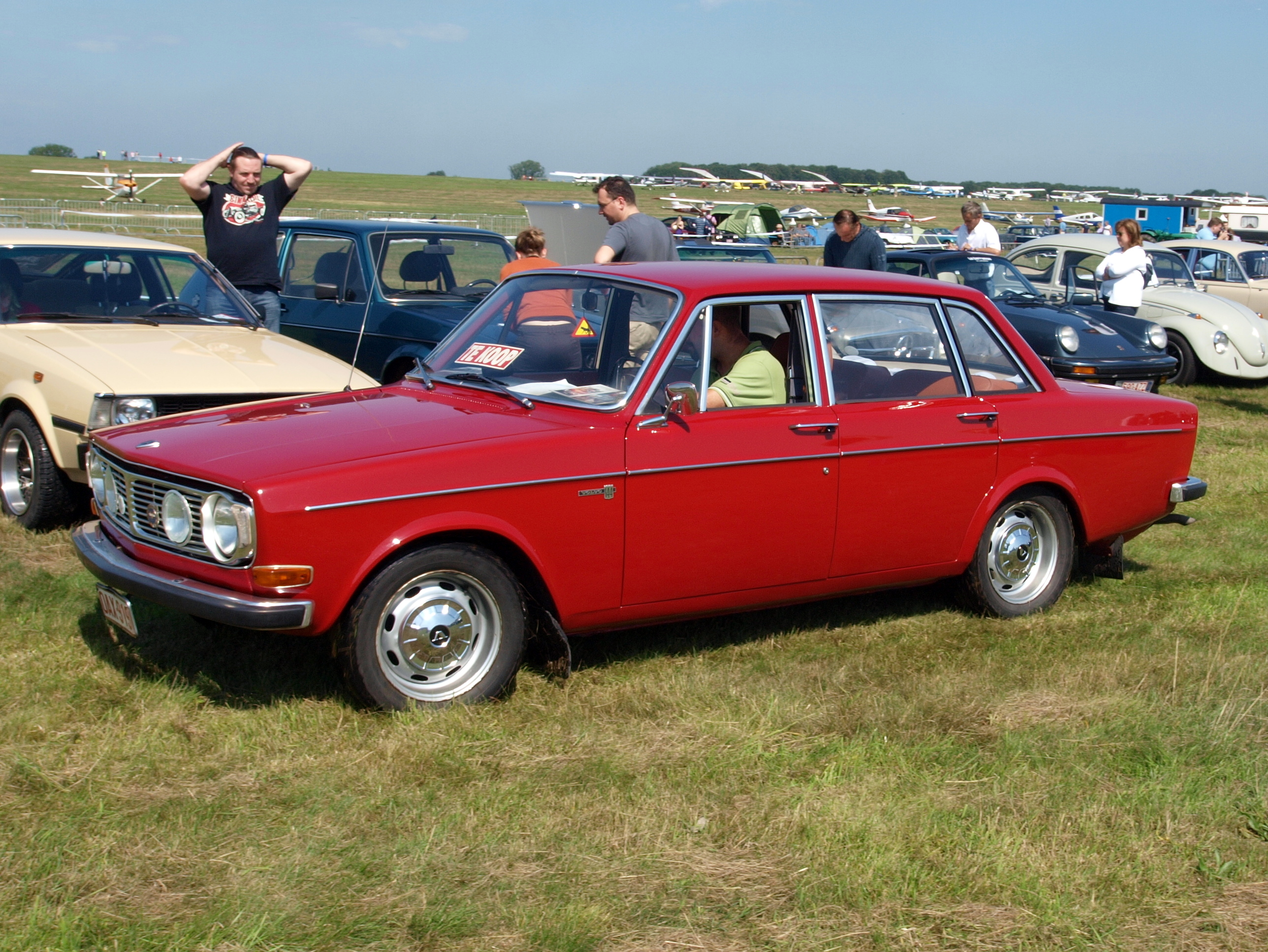 Photographed at The International Oldtimer Fly and Drive In 2010, Schaffen-Diest, Belgium.